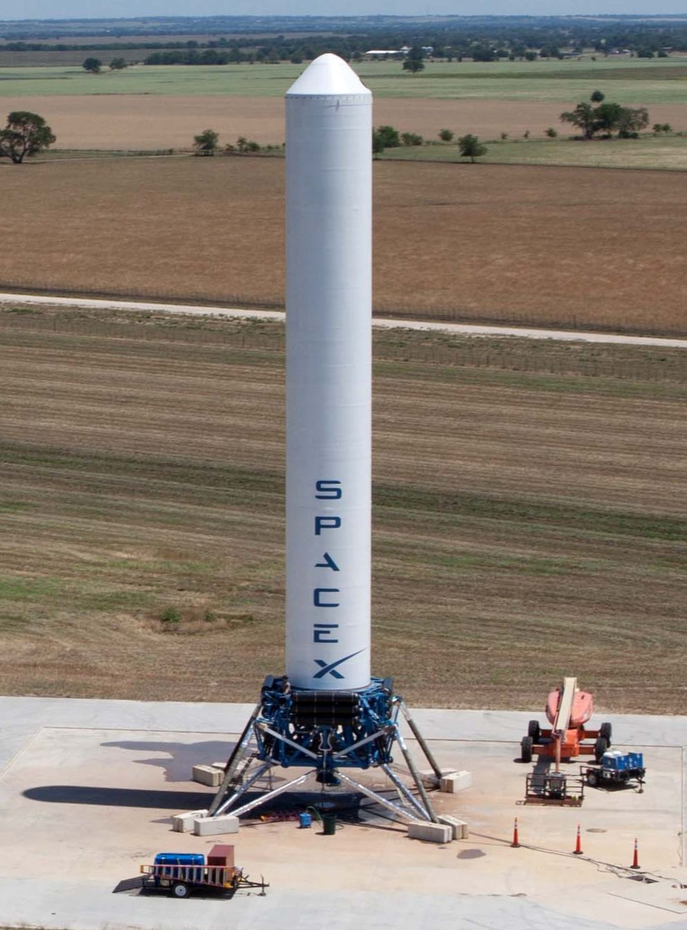 Grasshopper Site at Rocket Development Facility, McGregor, Texas